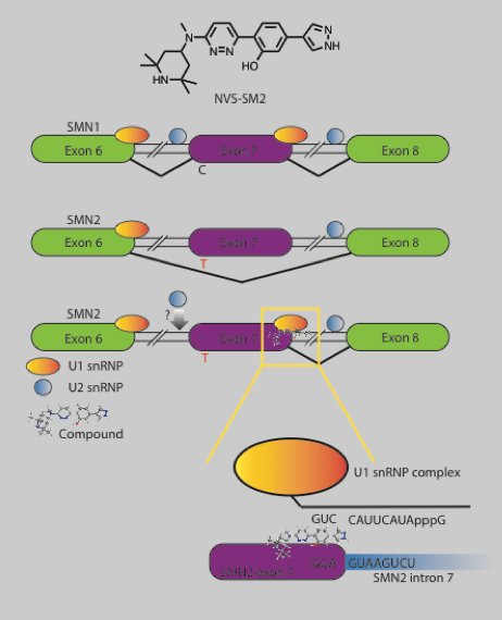 Branaplam acts to promote exon 7 inclusion in SMA patients by enhancing splicing at the exon 7-exon 8 junction. The small molecule (NVS-SM2) enhances recognition of SMN2 transcripts by U1-U2 specifically by enhancing the affinity of U1 to the 5'-splice site of SMN exon 7. Adapted from Palacino, J. et al. Nature Chemical Biology 2015, 11, 511.